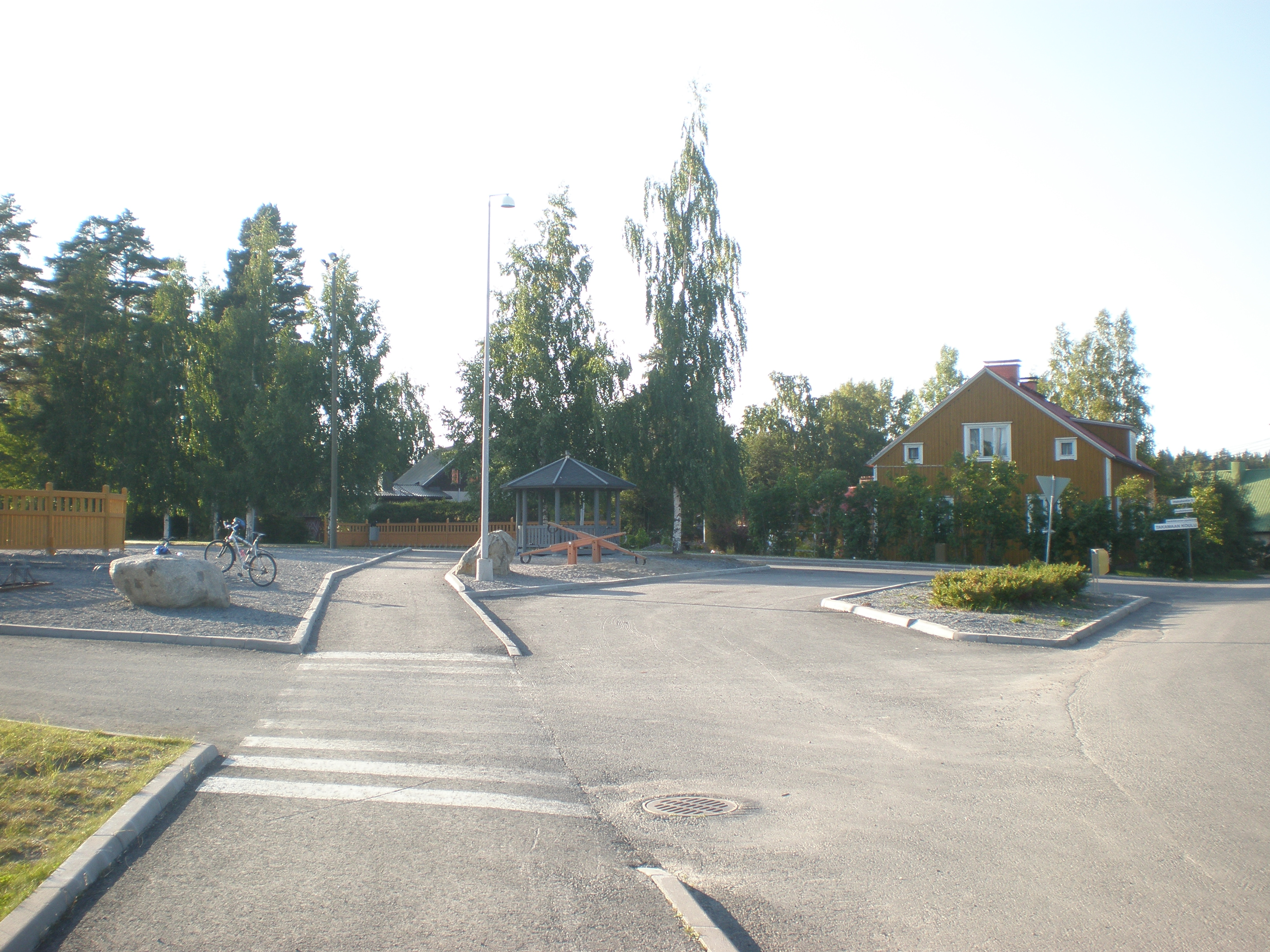 Square front of Takamaa school and houses, Takamaa, Ylöjärvi